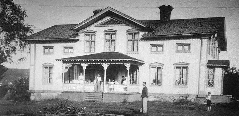 Norrland manor in Bjärtrå parish